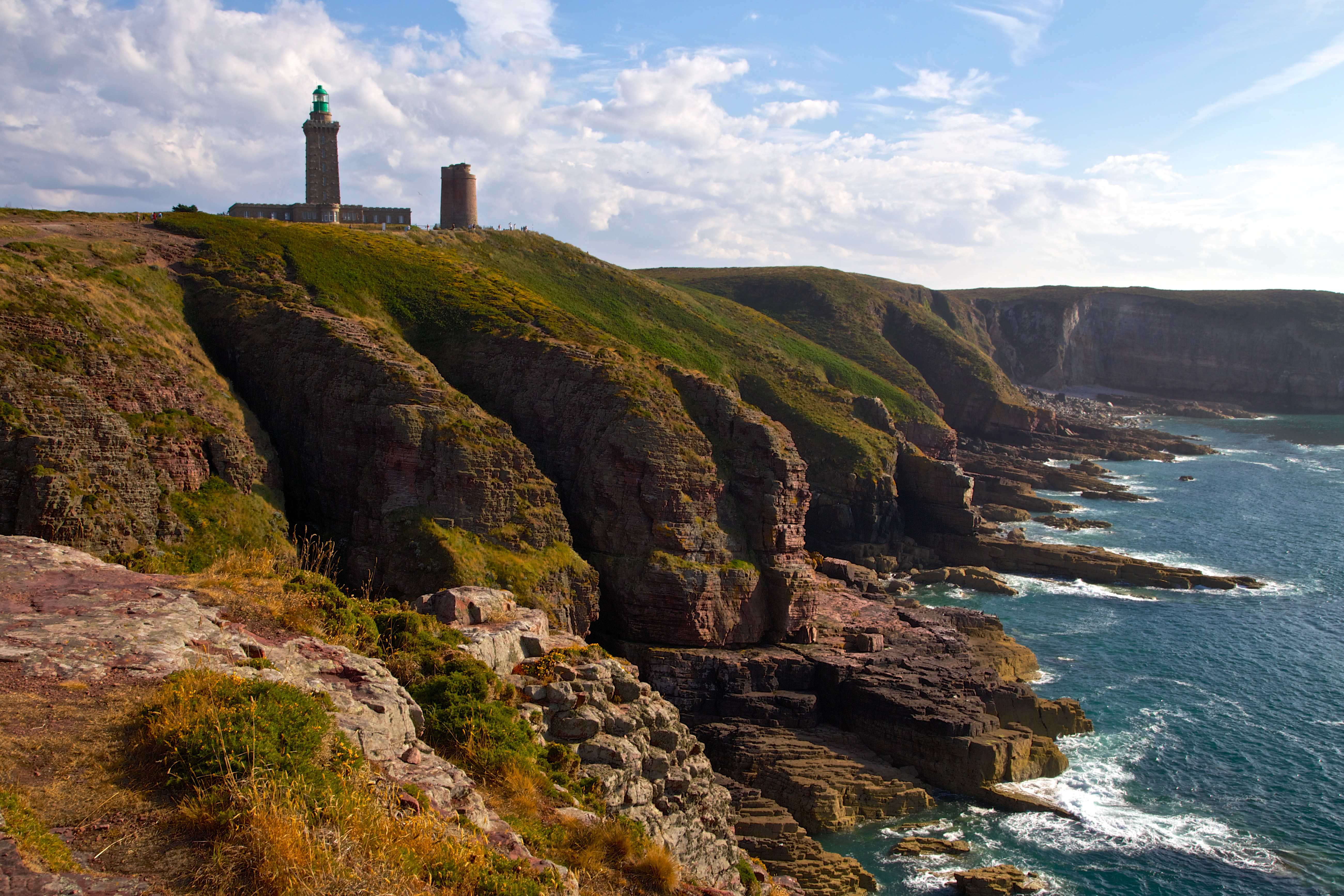 Cap Fréhel Lighthouse and Cliffs, Côtes d'Armor, Brittany